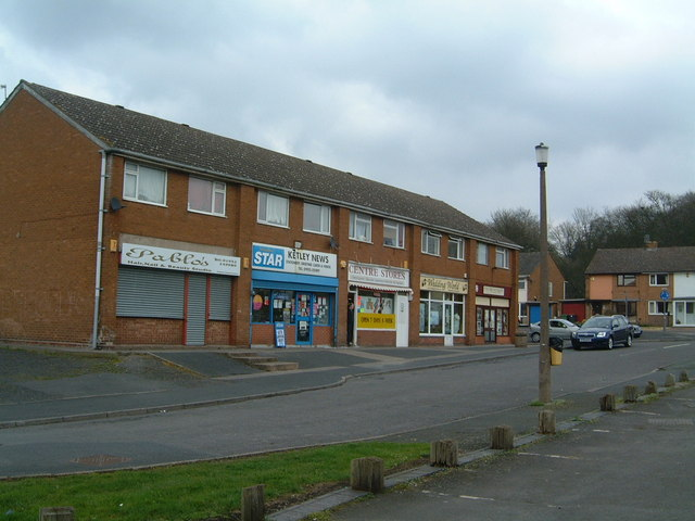 Ketley Original description: Local Shops Local amenities for the people of Ketley.